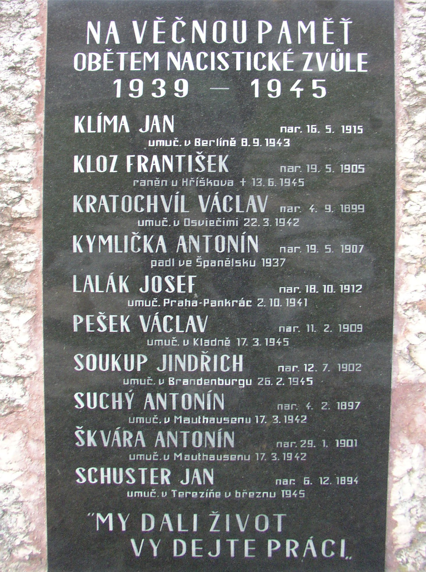 Memorial to victims of the 1939-45 period of Nazi occupation of Bohemia and Moravia in Engerh, a neighbourhood in Kladno, Kladno District, Czech Republic. Detailed view of the plaque. The adjacent streets (V. Kratochvíla and Ant. Suchého have been named after resistance participants mentioned in the list). The list opens with words „to eternal memory of victims of Nazi despotism“ and ends with „we have given life, you give /imperative plural/ work“.